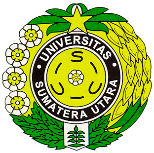 logo